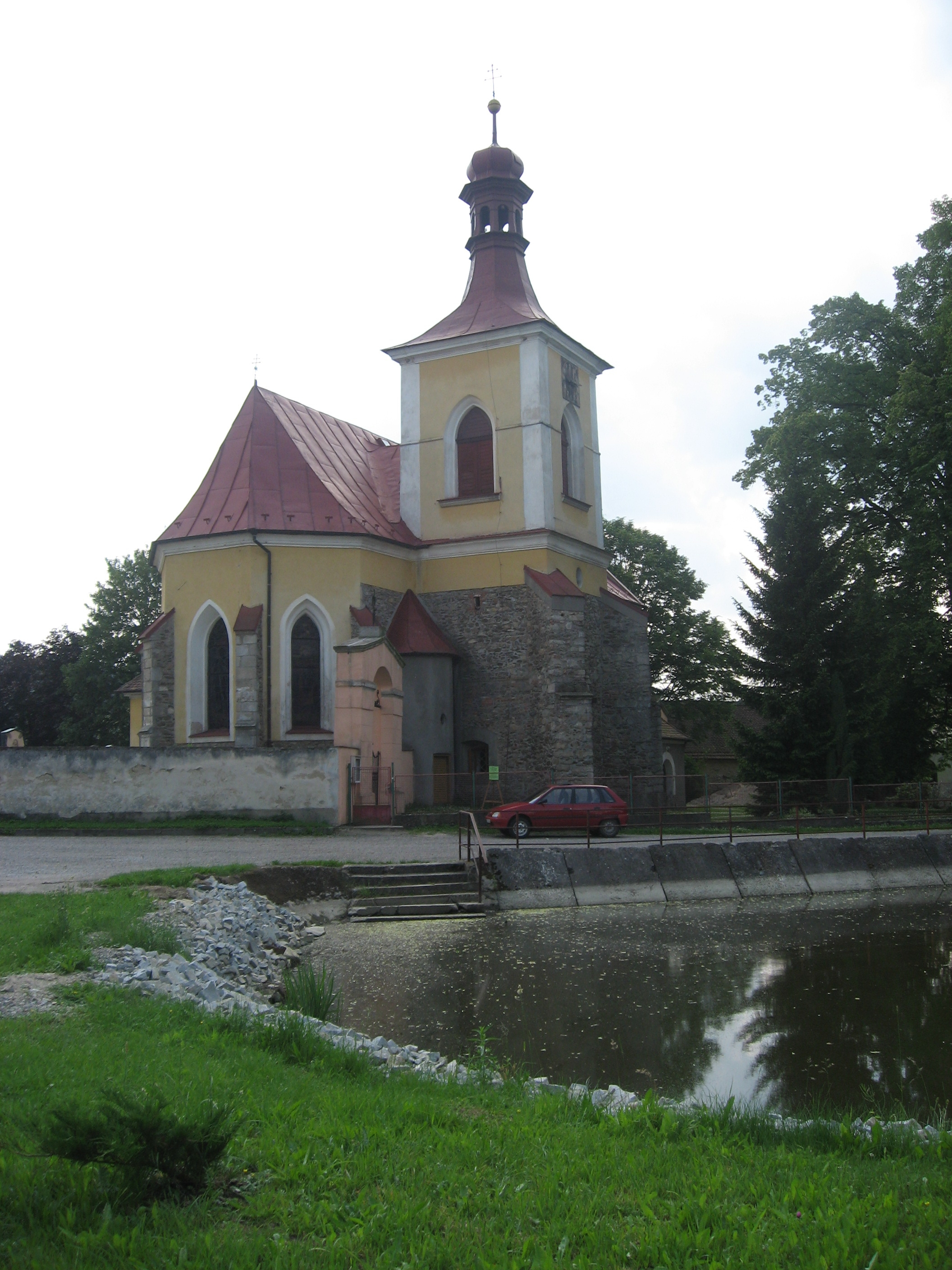 Church of St John the Baptist in Mladé Bříště